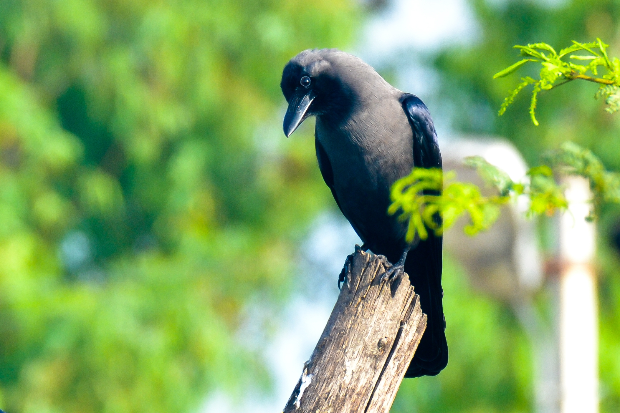 House Crow (Corvus splendens) in Tirunelveli, India